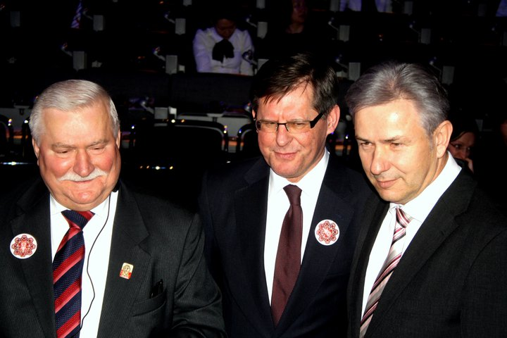 Lech Wałęsa, Adam Giersz and Klaus Wowereit at ITB 2011